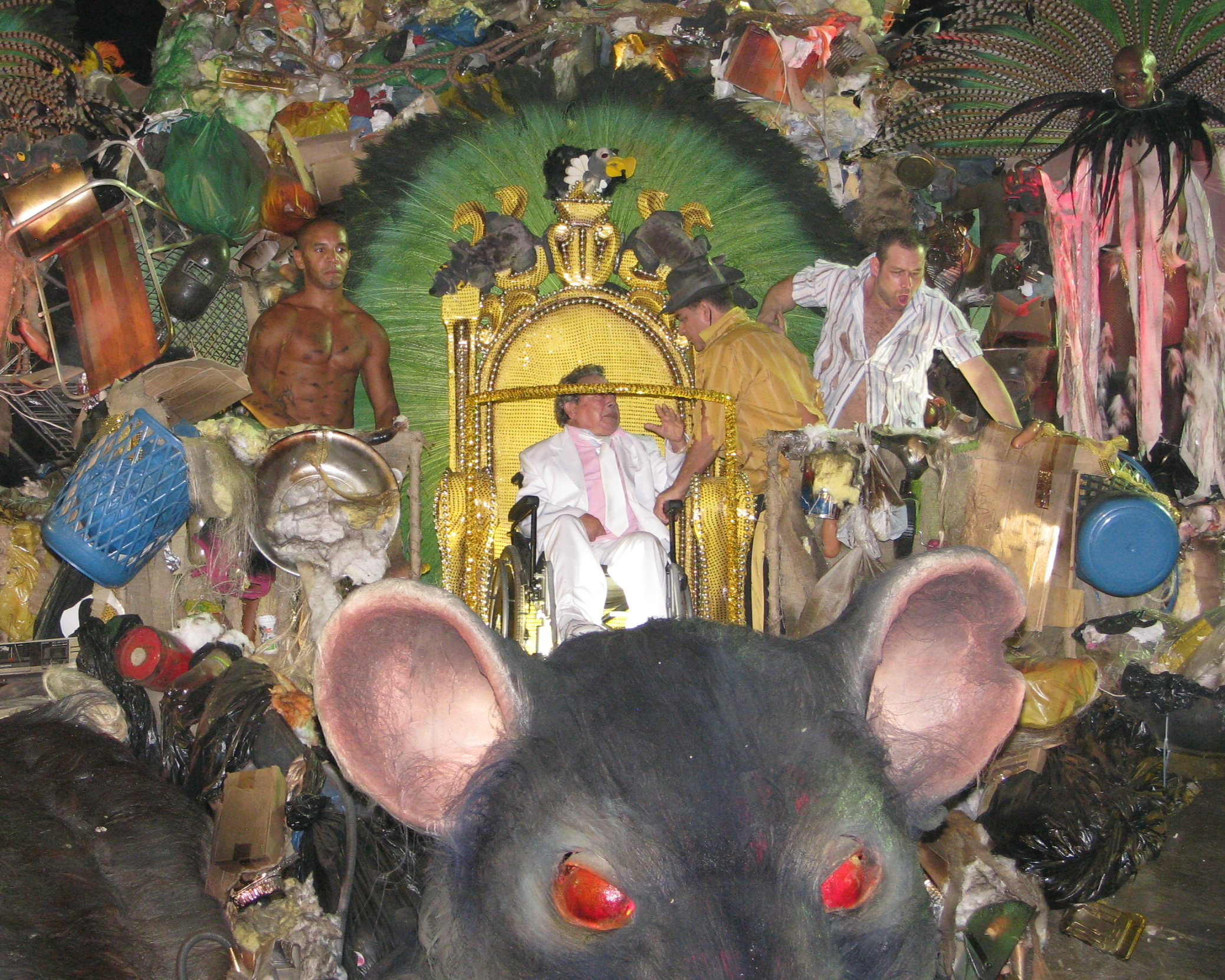 In 2010, Joãosinho Trinta was honored in the enredo [story/theme/plot] of the Grande Samba School, who celebrated 25 years of the Marquis of Sapucaí the samba stadium called the Sambadromo. The allegory of the Avenue in alluded to the story "Of Mice and vultures leaving my fantasy." Joãosinho Trinta paraded at front of the float, representing the "King of Revelry."